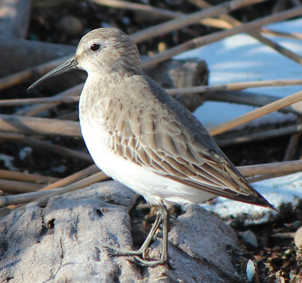 Calidris alpina sakhalina (Dunlin), winter plumage in Shōnai River, Aichi, Japan.